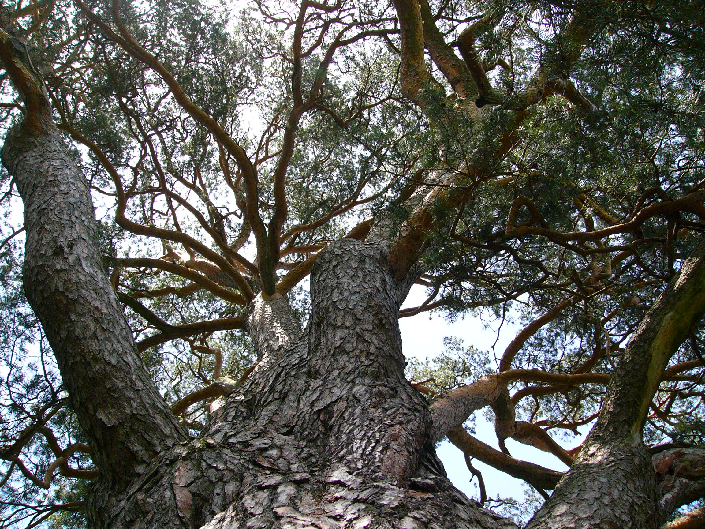 Scots pine (Pinus sylvestris)